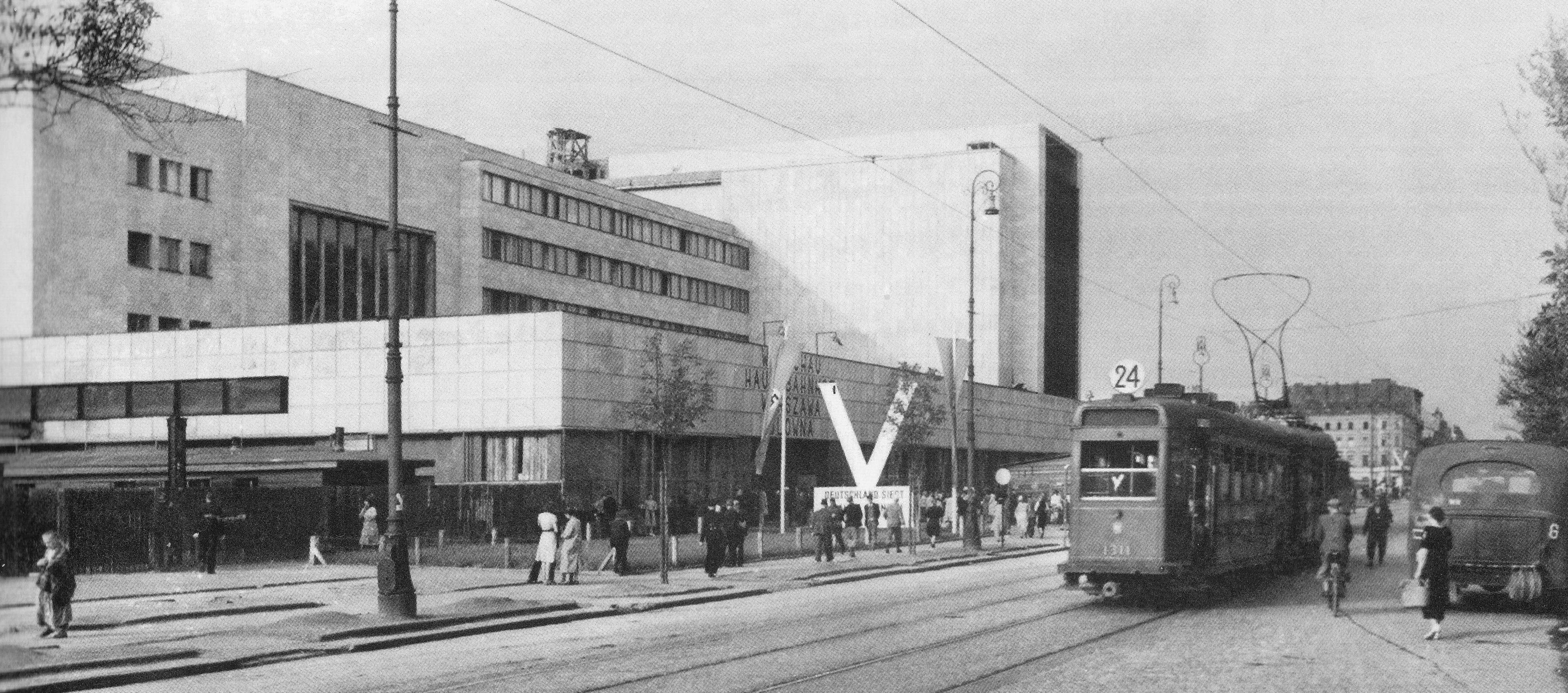 Warsaw main railway station